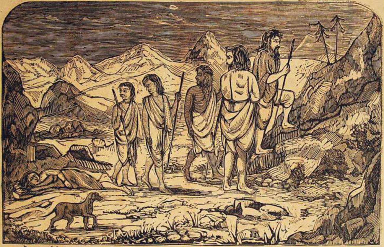 During nineteenth century the princely state of Barddhaman (Burdwan) in Bengal had patronized literature and arts immensely. Many ancient Sanskrit scriptures and Hindu epics were translated into Bangla and published regularly. The then ruler of Barddhaman, Maharaja Mahatab Chand Bahadur (1820 - 1879) encouraged such activities. Here we showcase six illustrations from the Barddhaman edition of Mahabharata, which were printed in wood engraving technique. On the cover was pasted a wood engraved portrait of the ruler of Barddhaman. Draupadi dies as the Pandavas journey to heaven